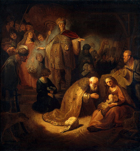 This image is available from the Netherlands Institute for Art Historyunder digital ID 238291. This tag does not indicate the copyright status of the attached work. A normal copyright tag is still required. See Commons:Licensing.